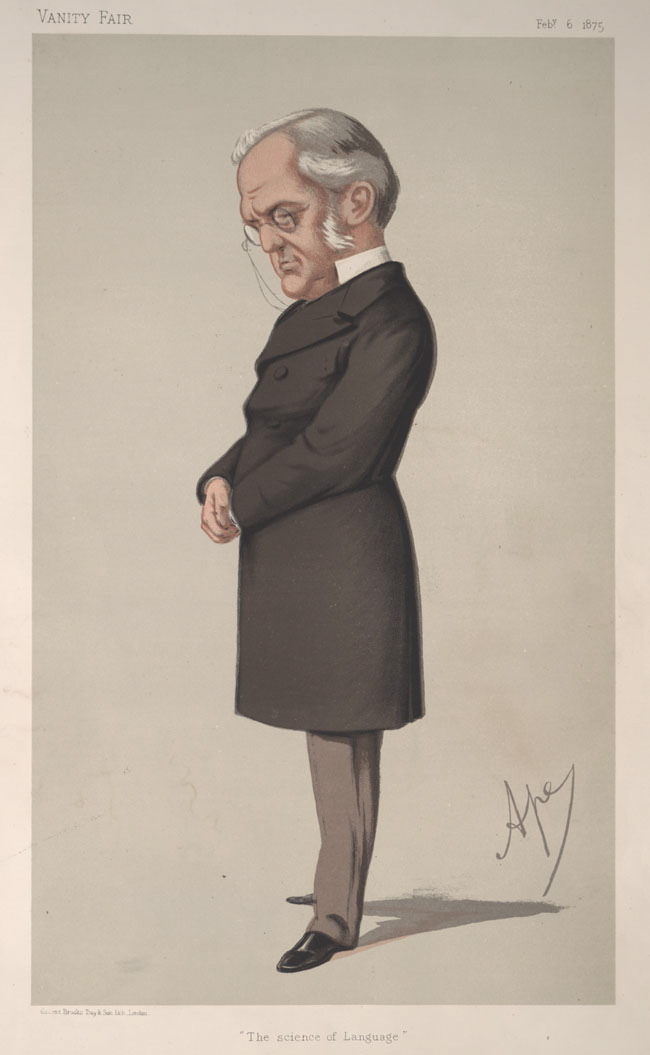 Men of the Day No.98: Caricature of FM Muller LLD. Caption reads: "The science of language"